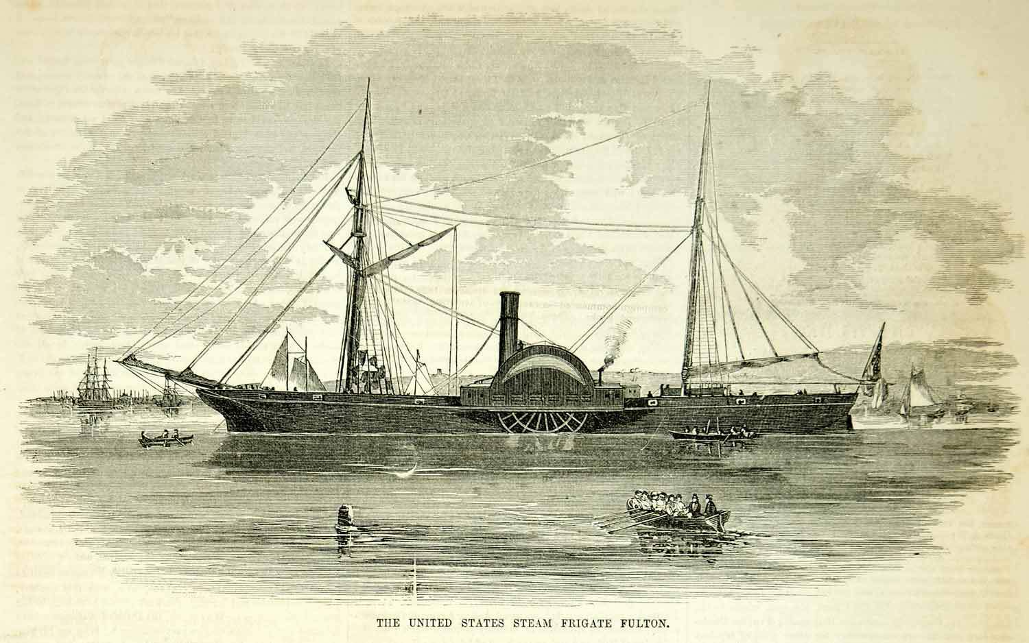 Wood Engraving 1854, USS Fulton, Navy Sidewheel Steamer War Ship Frigate